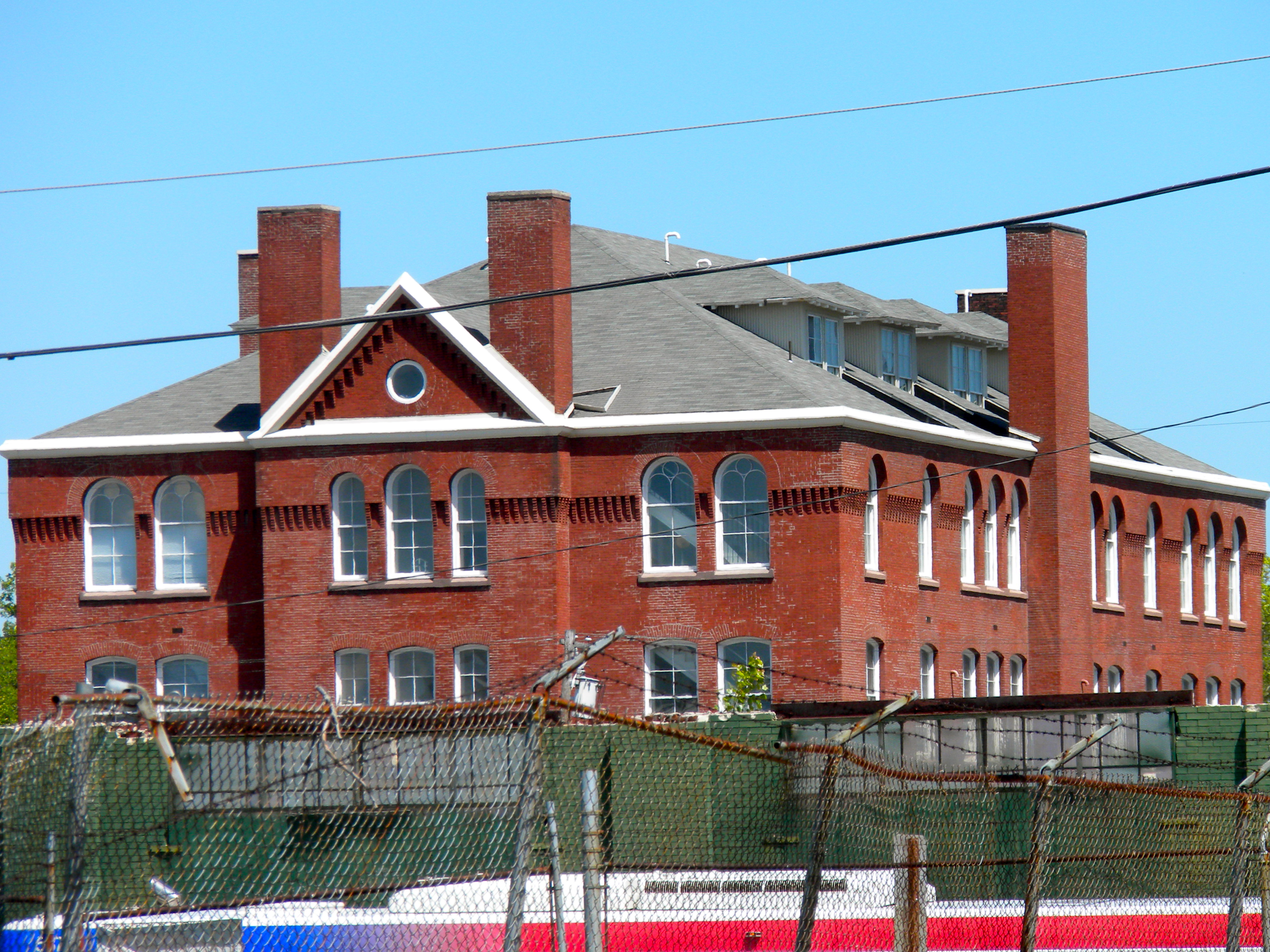 St. Anthony de Padua Parish School on NRHP since May 7, 1992. At 2309 Carpenter Street in Southwest Center City, Philadelphia, PA